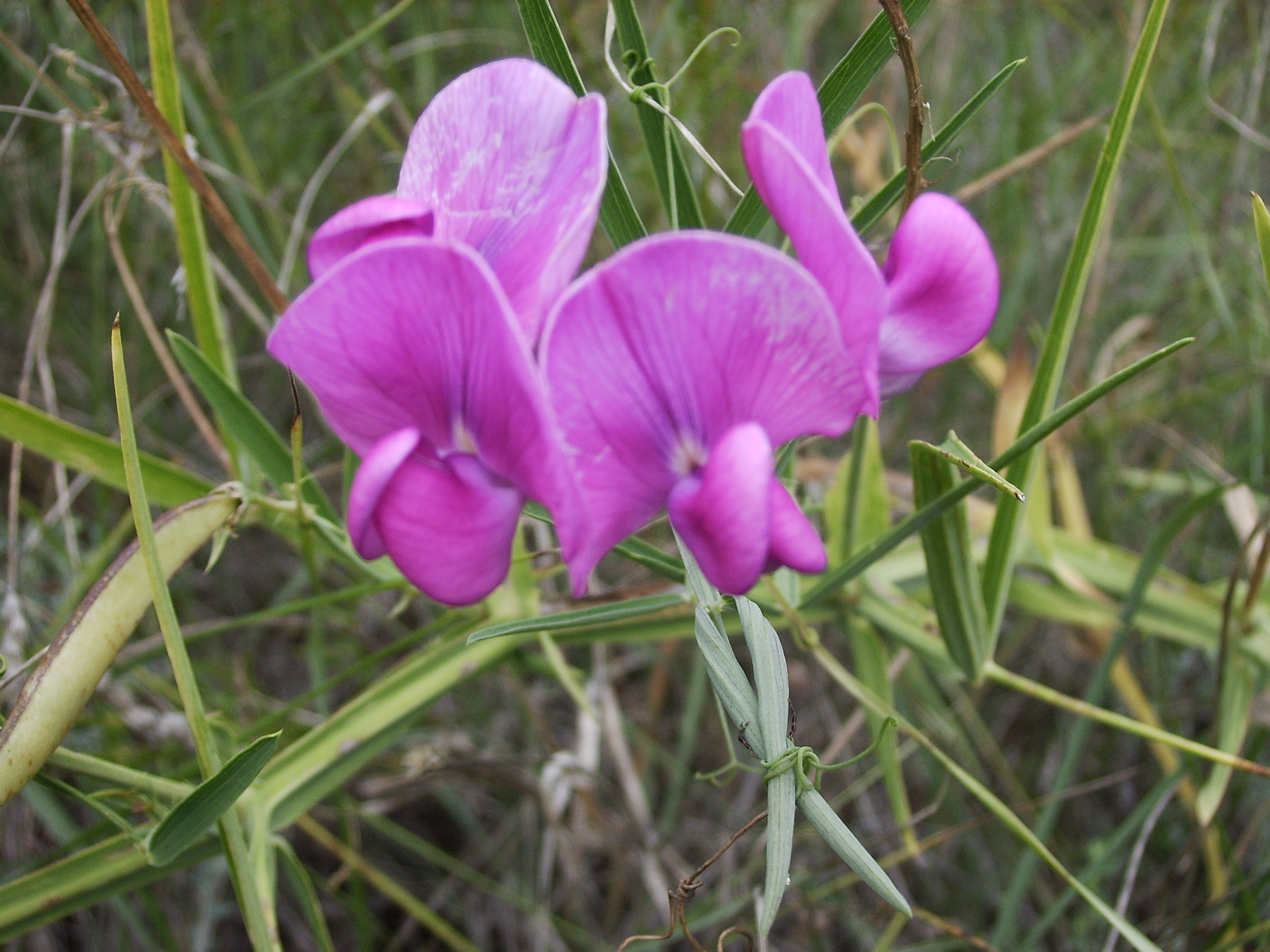 perennial peavine, Castelltallat, Catalonia